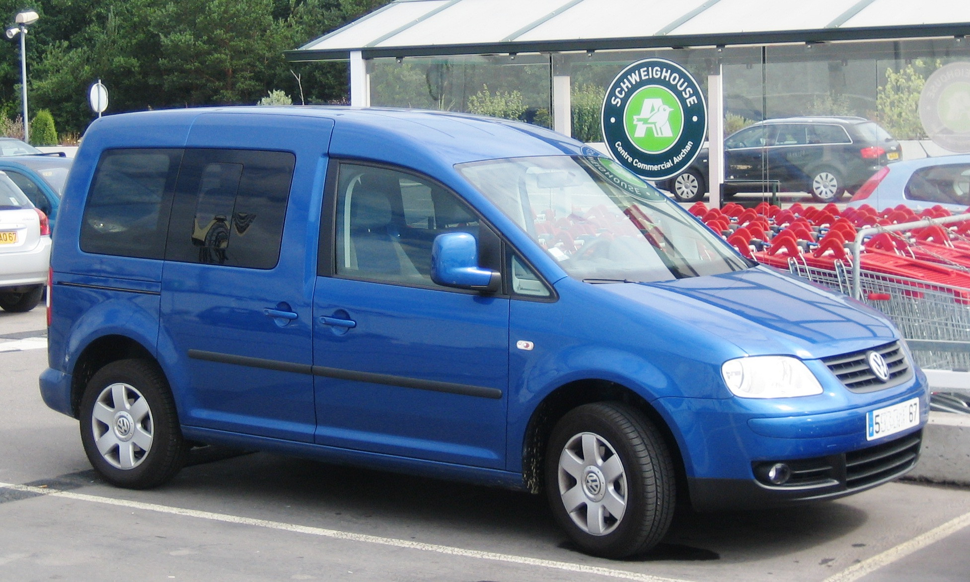 Volkswagen Caddy at hypermarket west of Haguenau